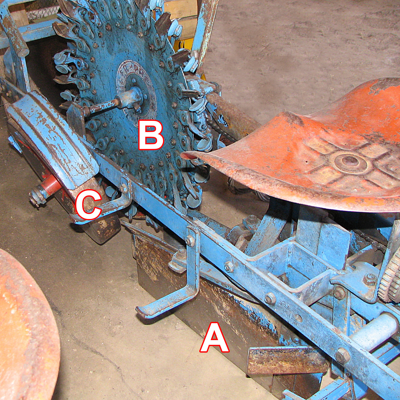 Transplanter (unit from the side)